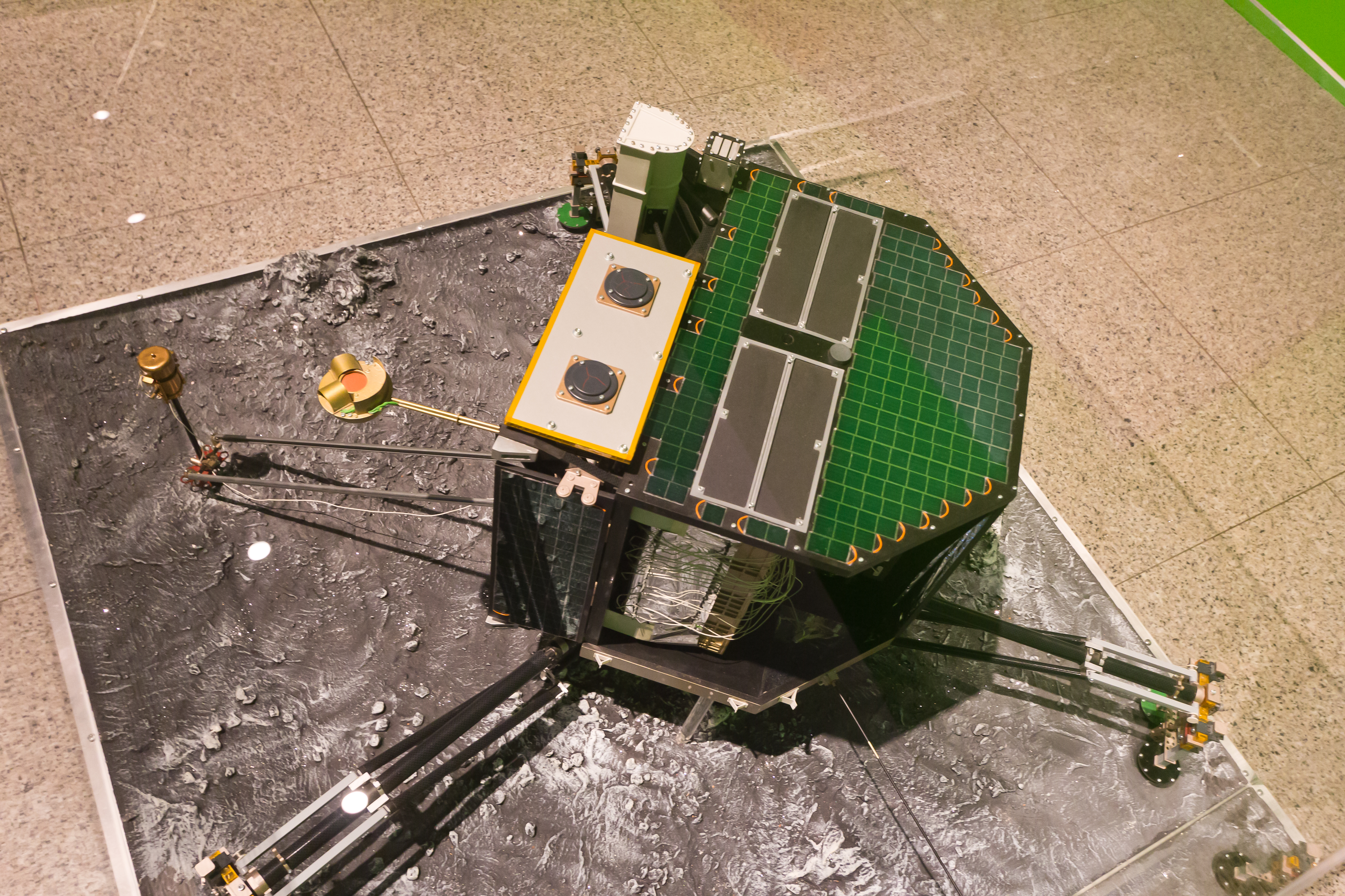 Kunst- und Ausstellungshalle der Bundesrepublik Deutschland (Bundeskunsthalle) - Ausstellung „Outer Space - Faszination Weltraum“ - Impressionen Foto: 1:1-Modell des Rosetta-Landers Philae. Katalog-Nummer 280